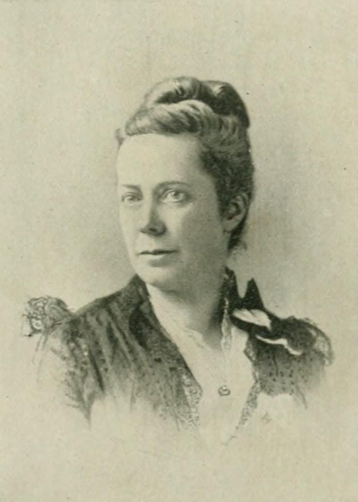 Portrait of A D Abbatt